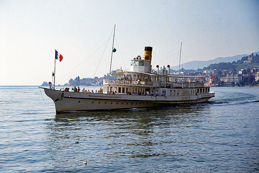 Savoie CGN paddle steamer, built 1914 leaving Montreux August 1991. Scanned from a Fujichrome 35mm slide.